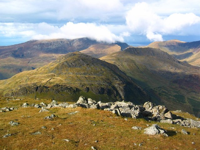 Moel yr Ogof, Moel Lefn, and the Nantlle Ridge. Clouds drift across the distant Nantlle Ridge here viewed from the summit of Moel Hebog. The nearer summit is Moel yr Ogof, with Moel Lefn behind. The NW edge of Beddgelert Forest can just be seen on the right.